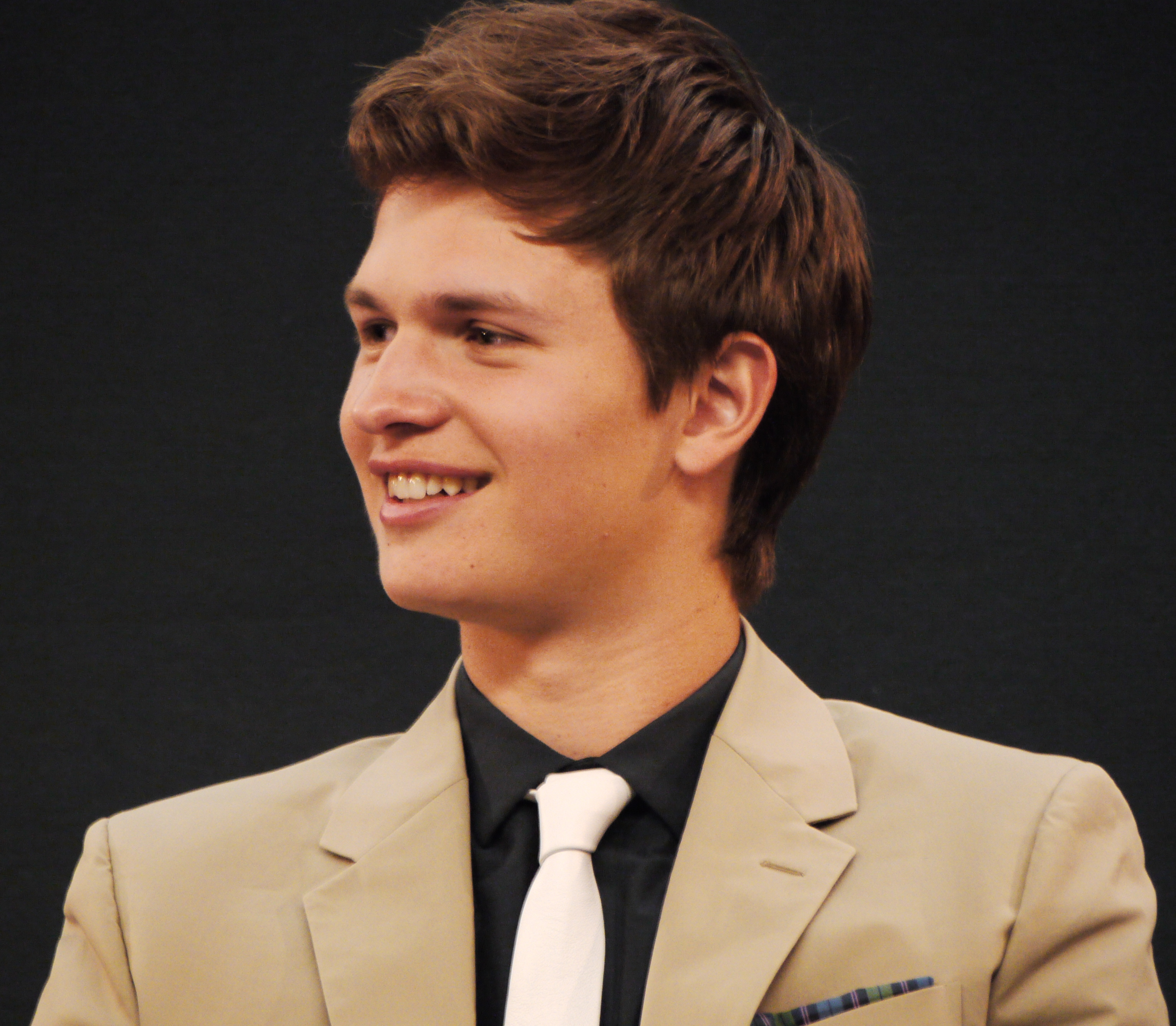 Ansel Elgort at an Apple Store in 2014